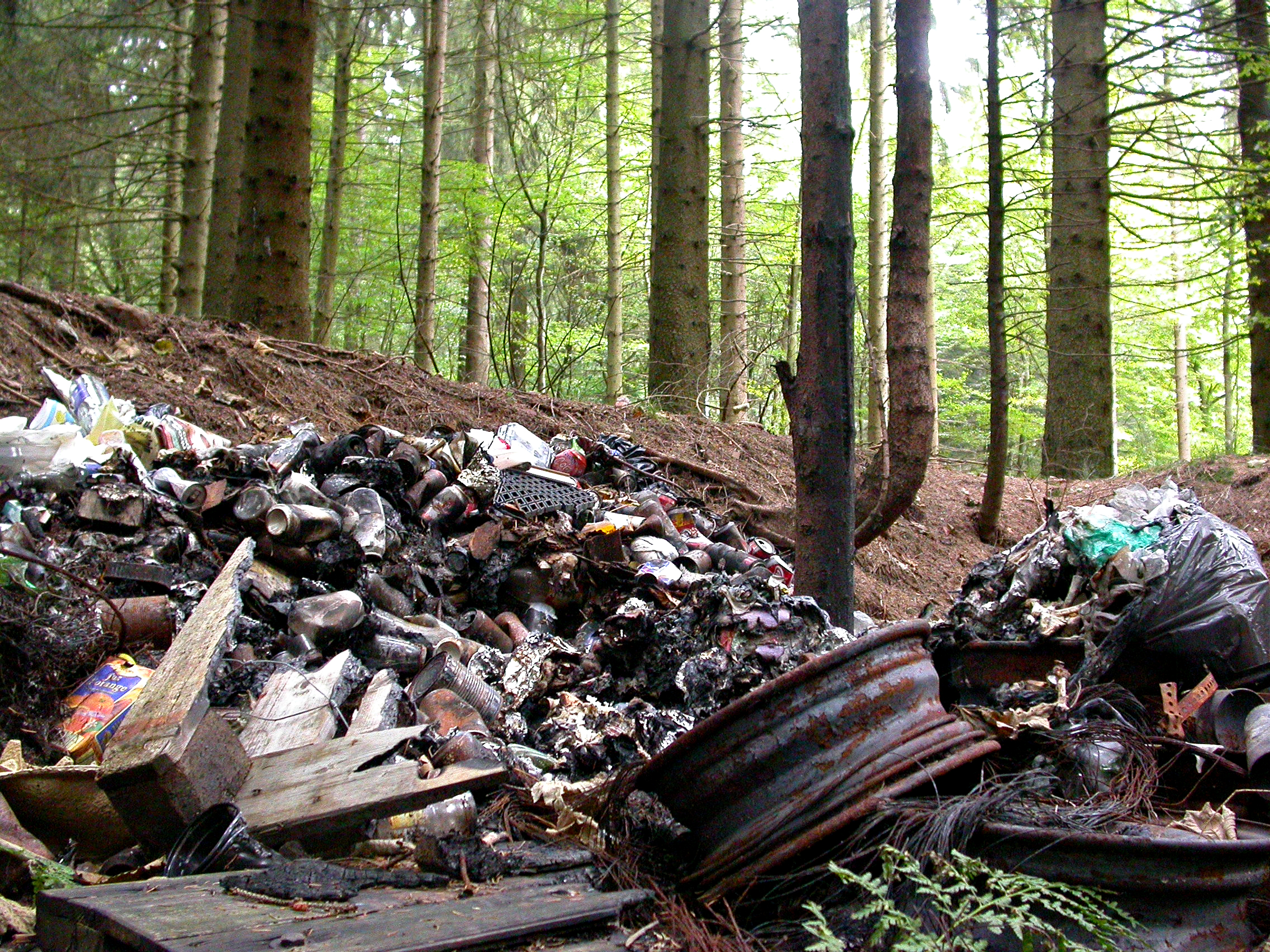 It seems that they tried to burn their waste composed mainly of metallic cans... But even if this is not very nice visualy for us, human beings, this is not really a big problem for nature.